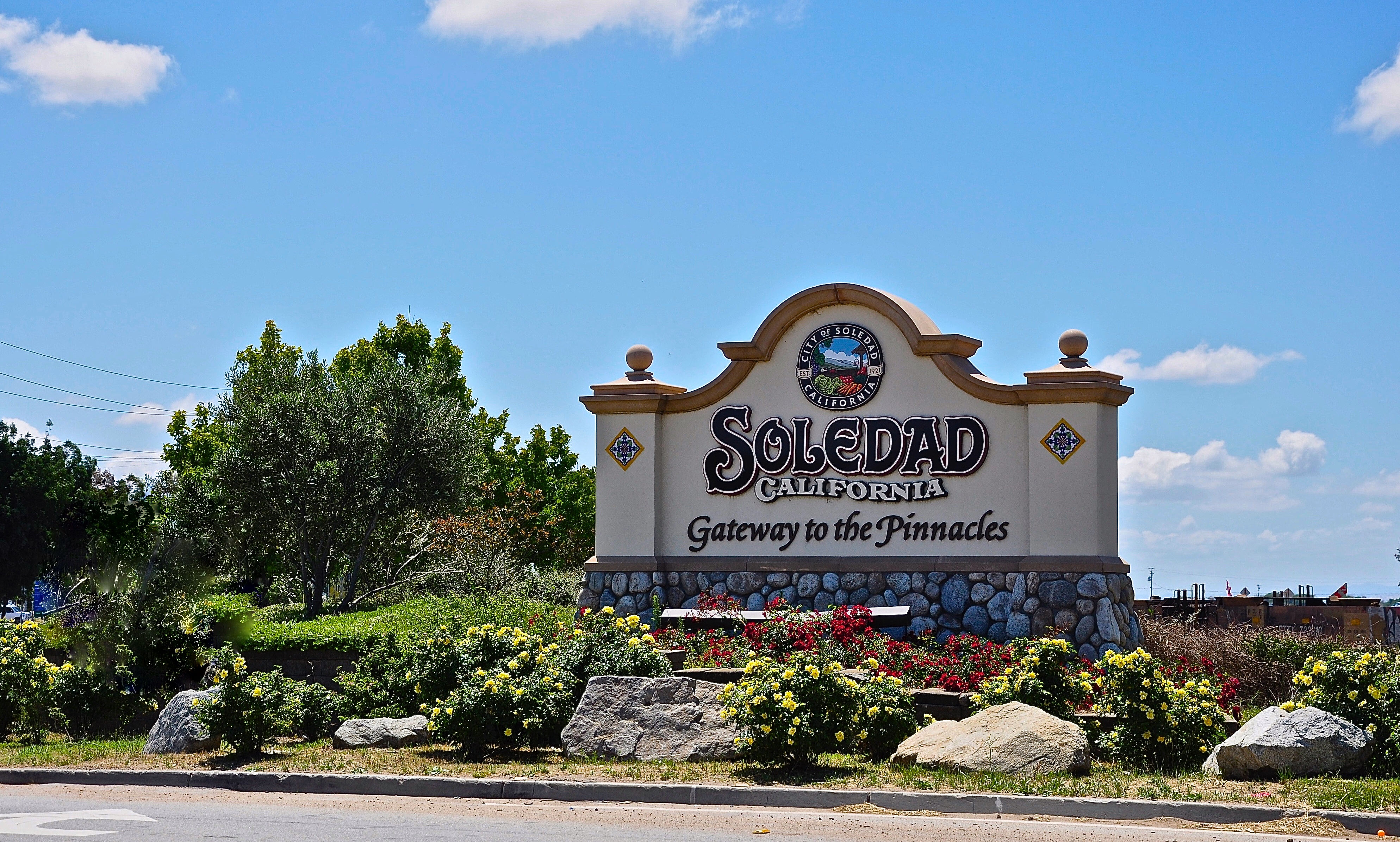 The City of Soledad is a jumping off point for Pinnacles National Park.